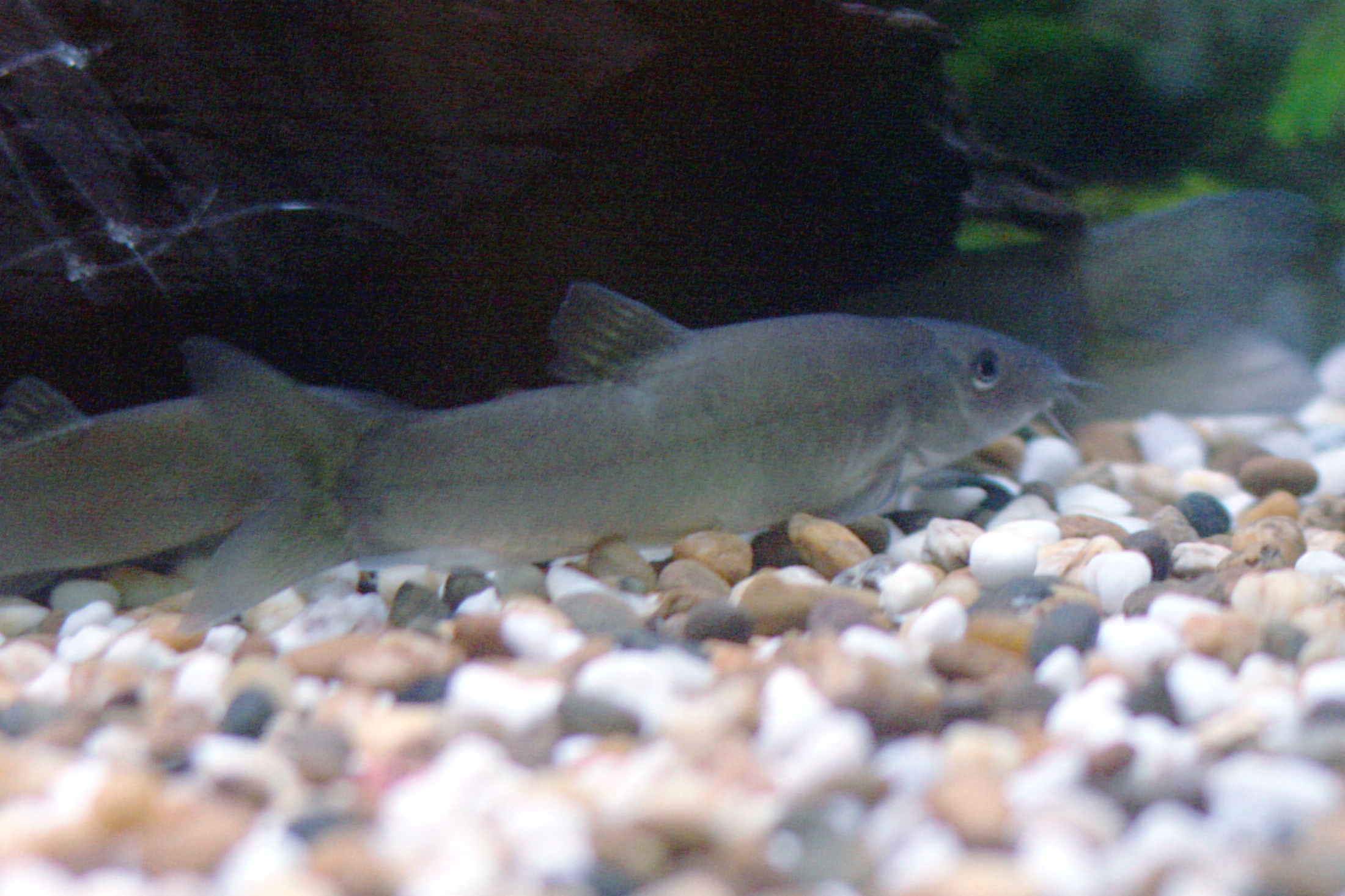 Silver loach Yasuhikotakia lecontei. Size about 8cm SL.